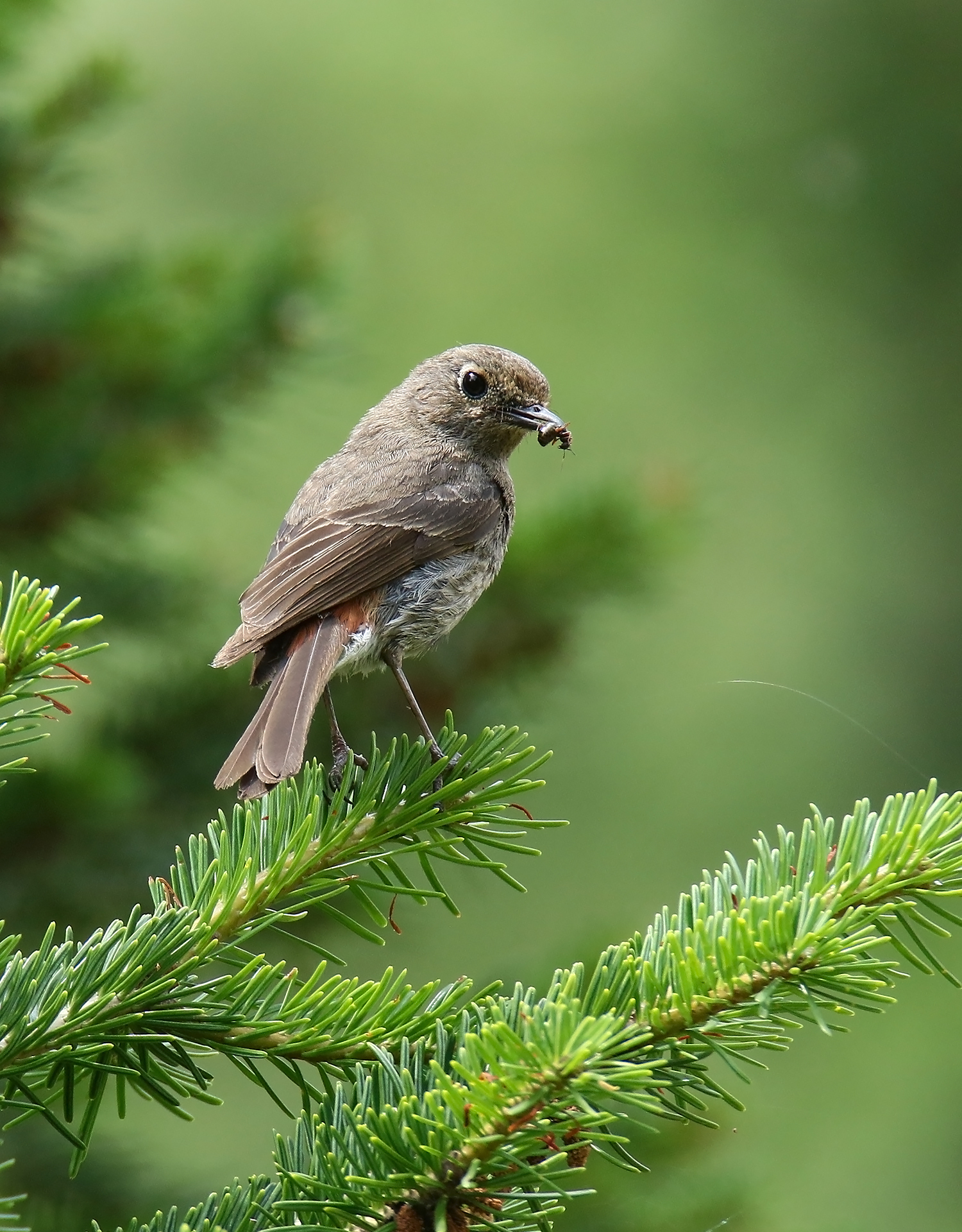 Blue-capped Redstart (Phoenicurus caeruleocephala) captured at Rama, Astore, Gilgit-Baltistan, Pakistan with Canon EOS 7D Mark II